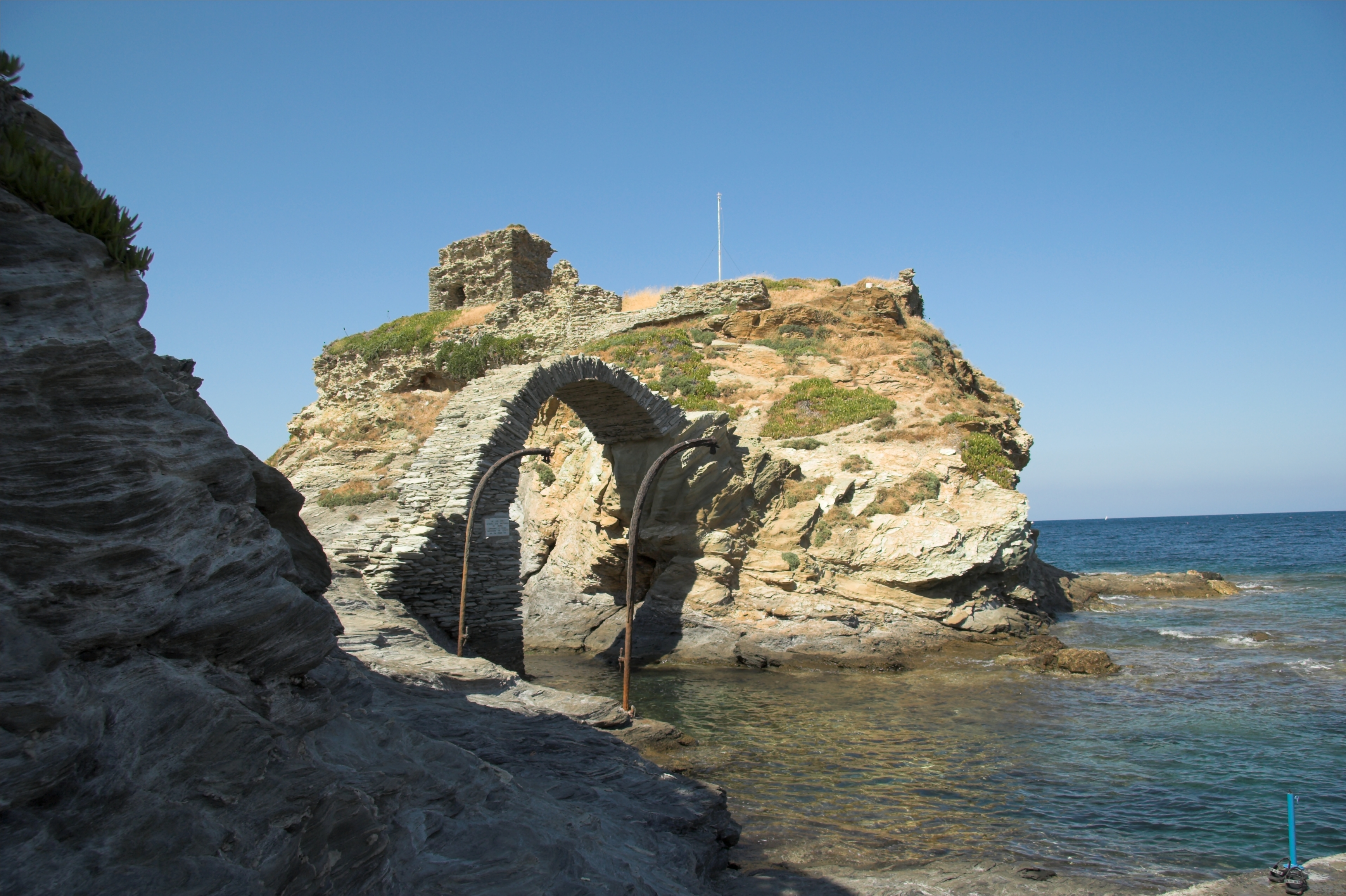 Chora of Andros, the Venetian castle (Mesa Kastro). There are also said to early Christian relics.